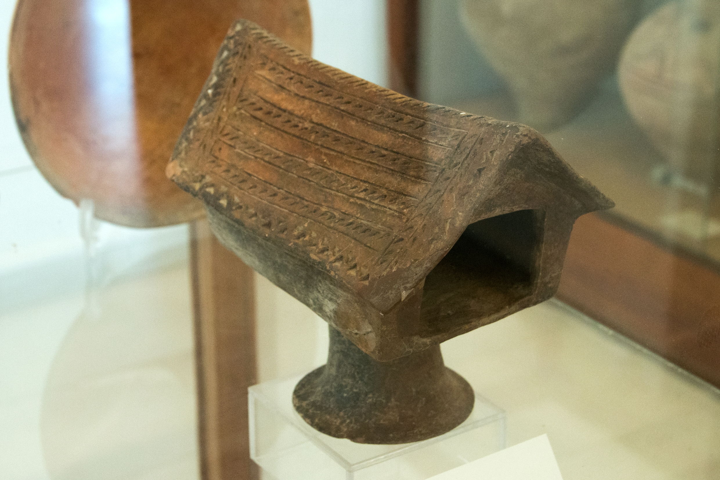 House model. Early Cycladic pottery, model of a house. EC II-III, 2500-2000 BC, length 23 cm. Find from grave in Rivari on Milos, at Halakas. Archaeological Museum of Milos, Cat. no. B 918.